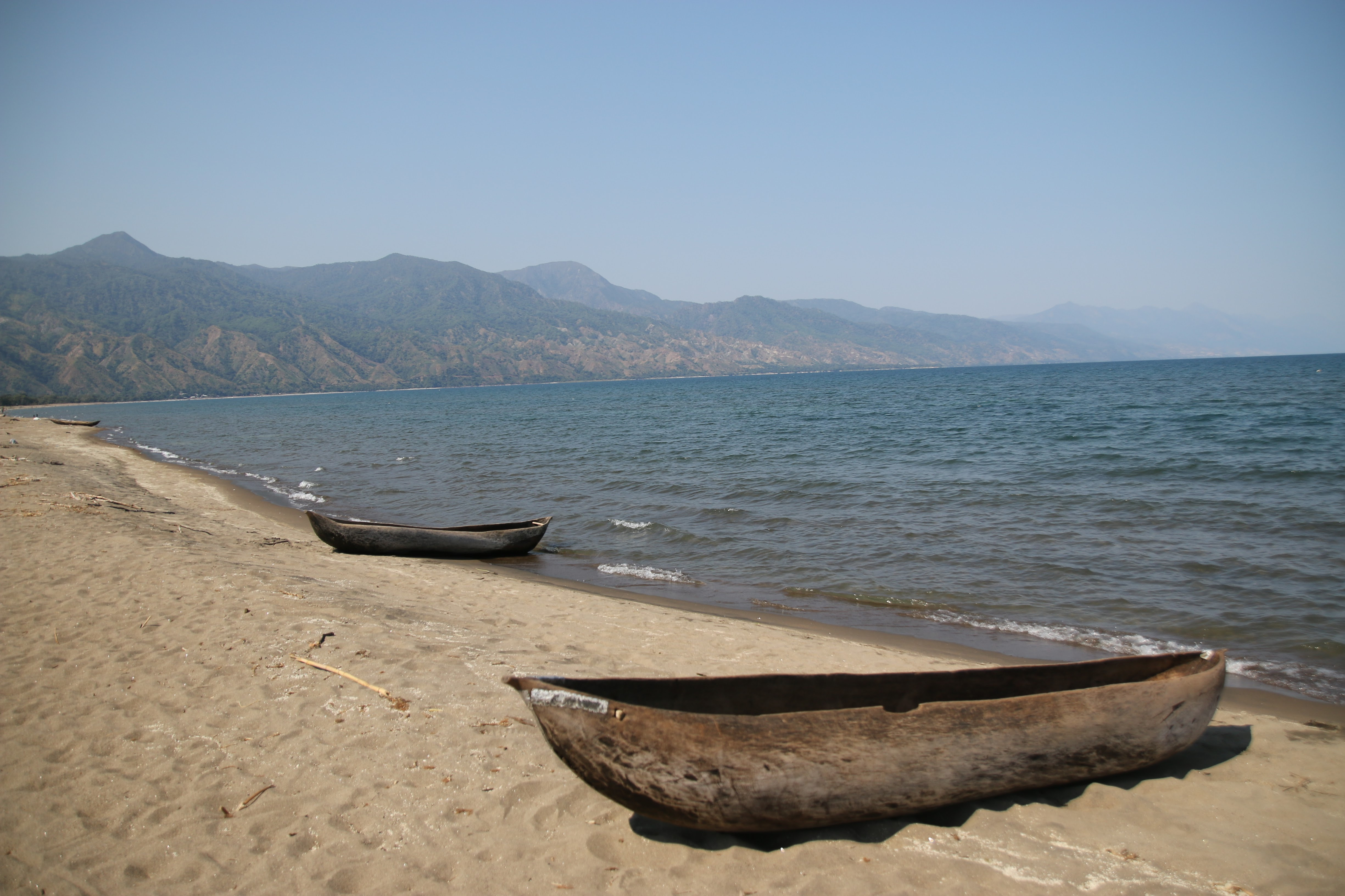 These dugout canoes were used by local fisherman and were photographed pulled up onto the beach at the shore of Lake Nyasa in Tanzania, with the stunning backdrop of the Livingstone mountains. This is an image with the theme "Africa on the Move or Transport" from: Tanzania